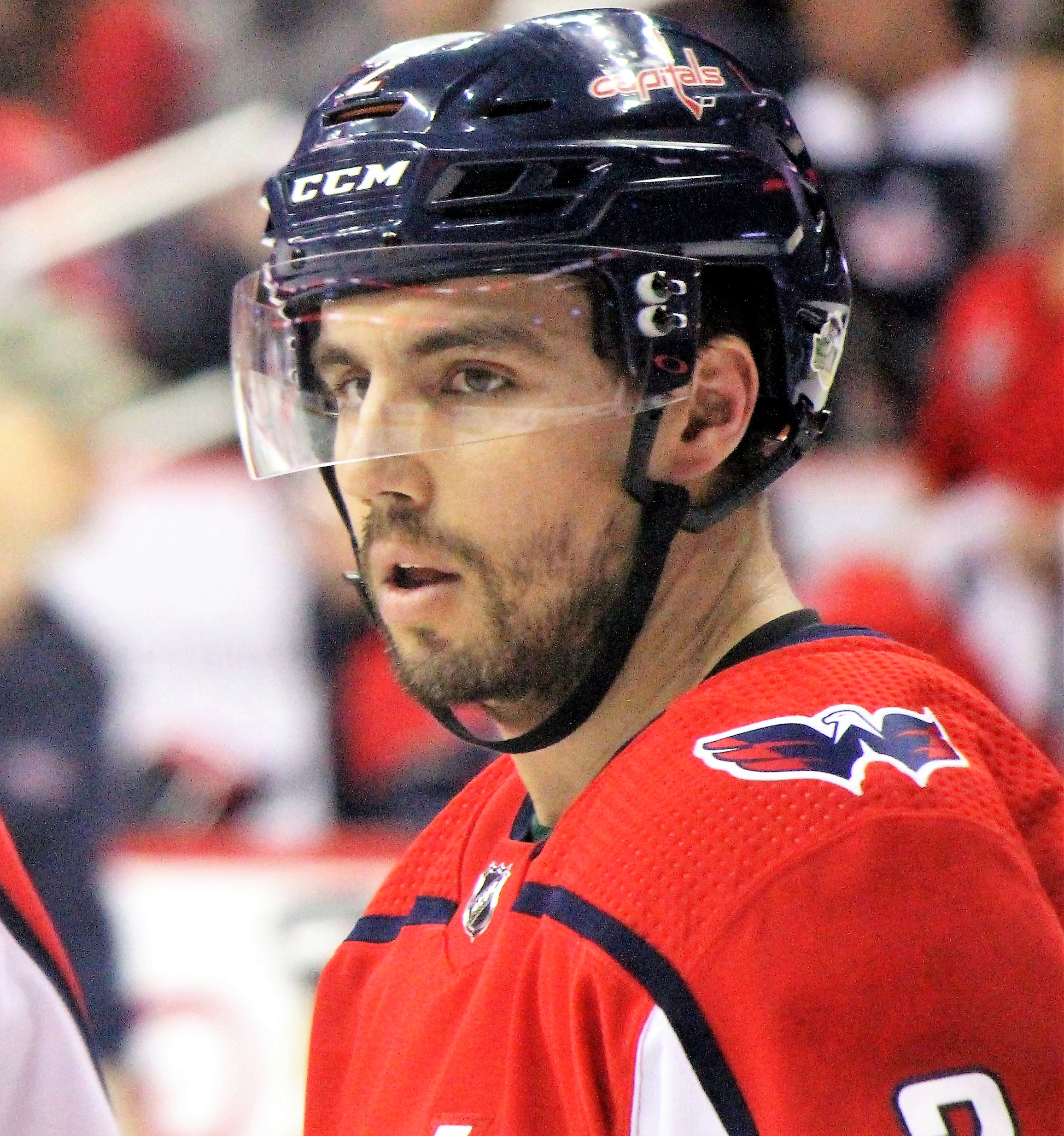 Washington Capitals defenseman Matt Niskanen during game 2 of the Eastern Conference Semifinals series against the Pittsburgh Penguins, April 29, 2018, at Capital One Arena in Washington, D.C.